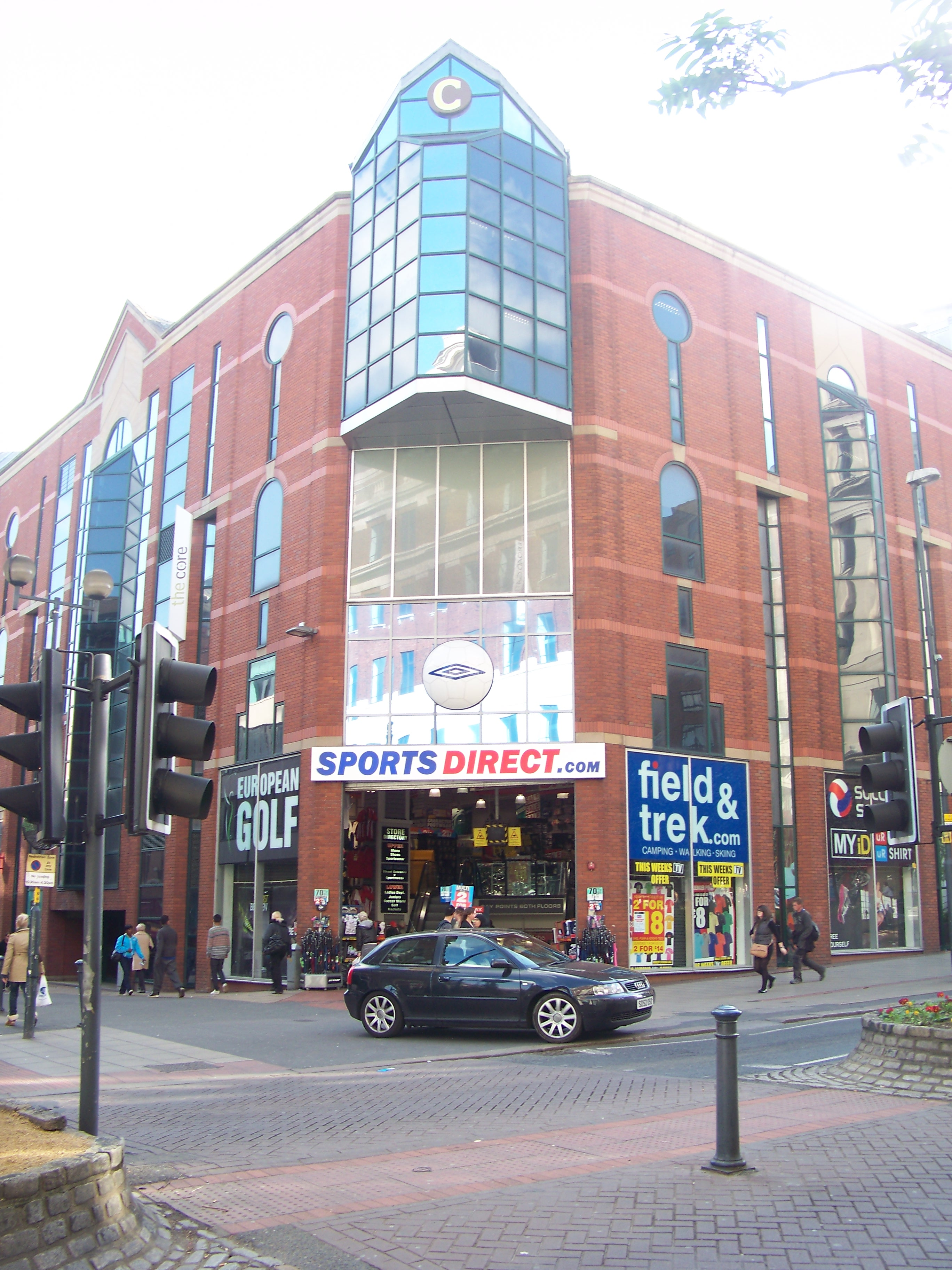 Leeds